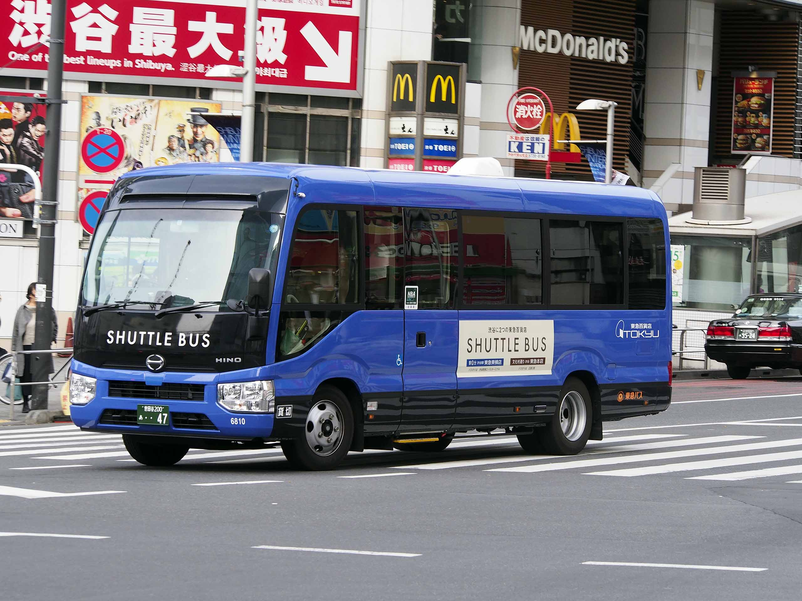 Shuttle bus of Tokyu Department Store Honten (Head Store) from Shibuya Station, operated by Tokyu Bus. Model: Hino Liesse II Lisence plate: TKG200 A0047